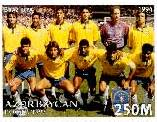 Select football team of Brazil - World Football Champion of the year 1994.